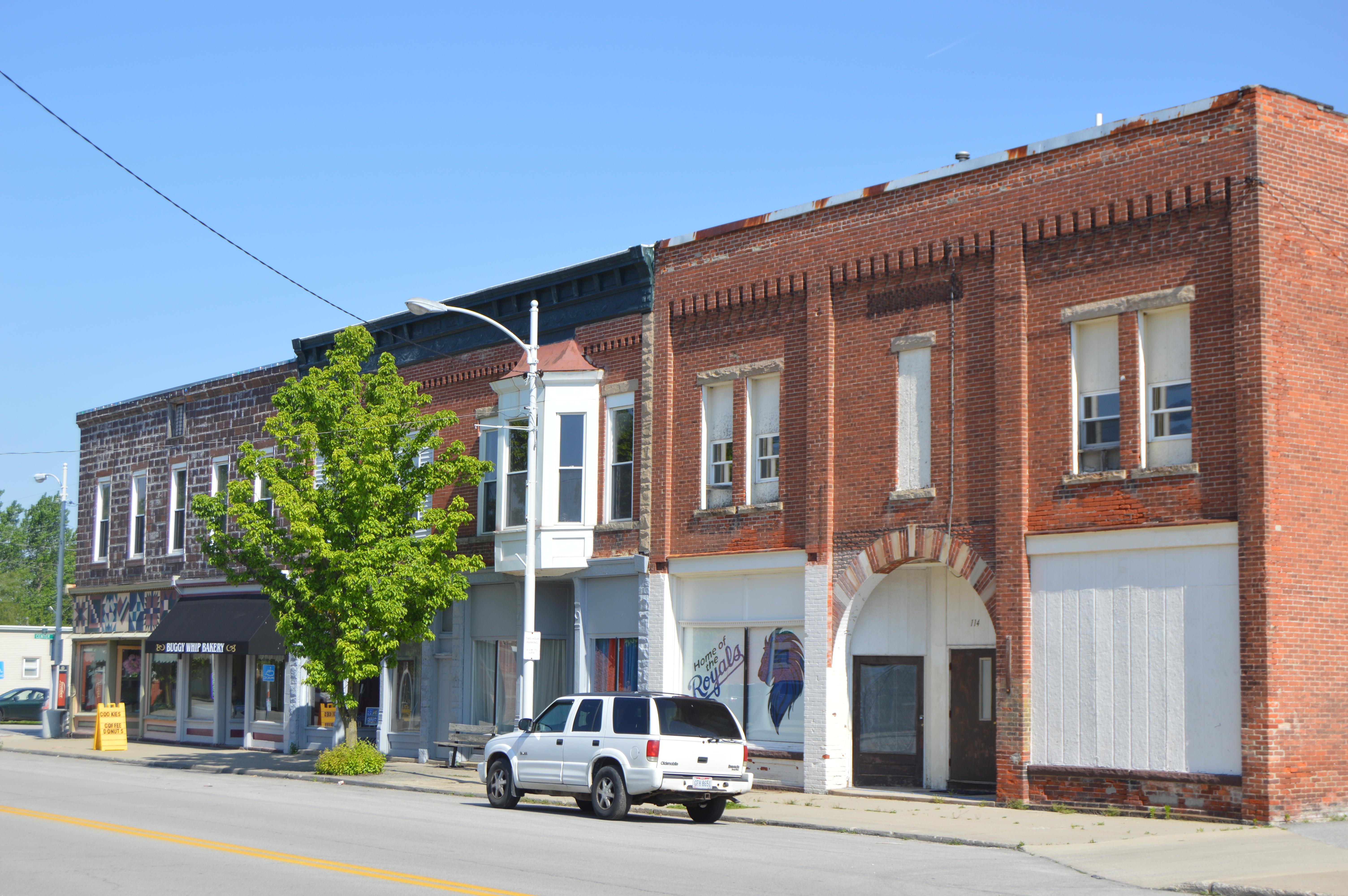 Buildings on the northern side of Main Street (State Route 281) in central Wayne, Ohio, United States.